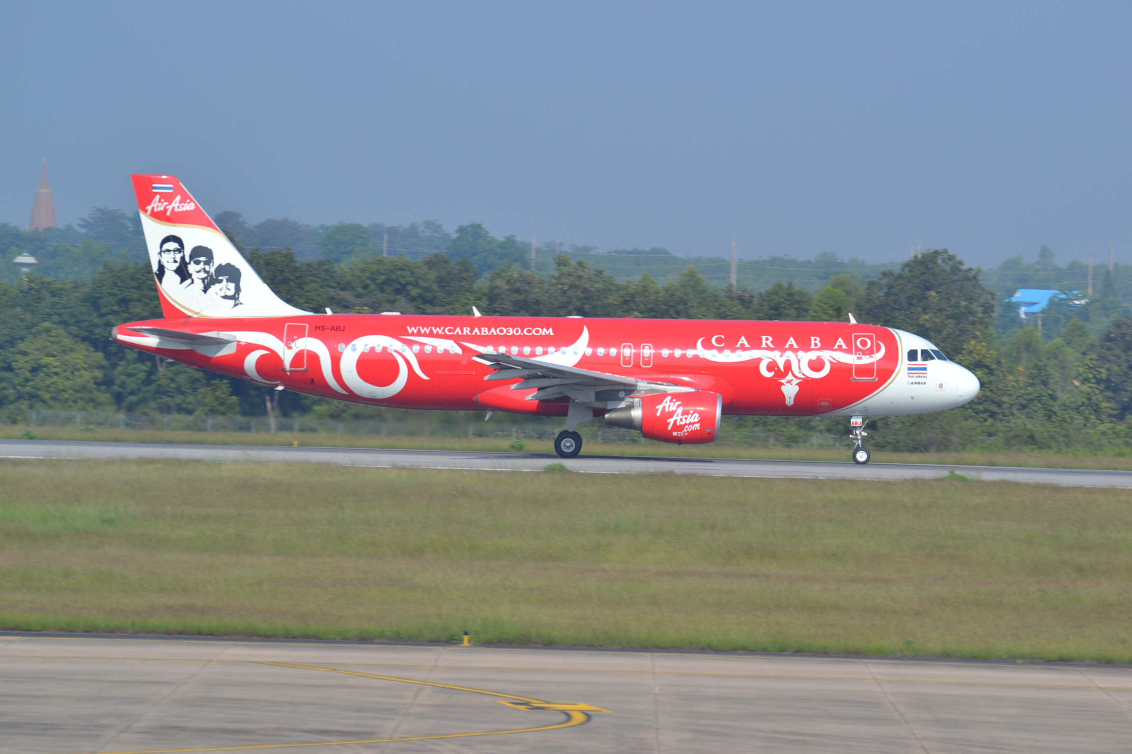 Airbus A320 of Thai AirAsia in spl. "Carabao30" clrs. & titles,departing Khon Kaen-KKC, Thailand, 29/10/13. Explanatory note re.: special colours: Carabao are a Thai rock band formed in 1981 & the 30 being the years together in 2011 when they did a series of anniversary concerts.)